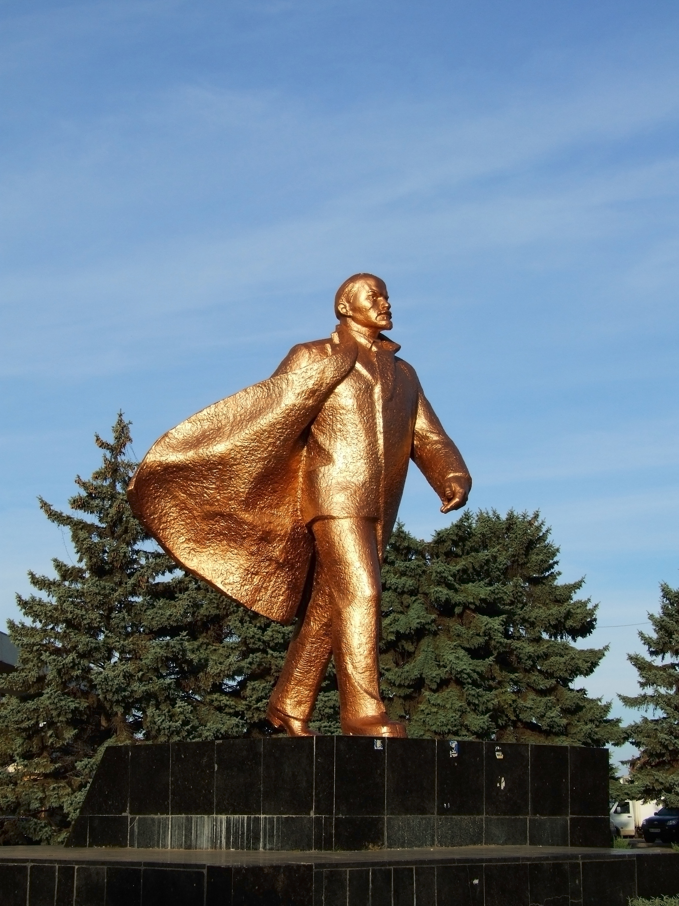 The Lenin statue in Illichivsk Odessa Oblast, Ukraine